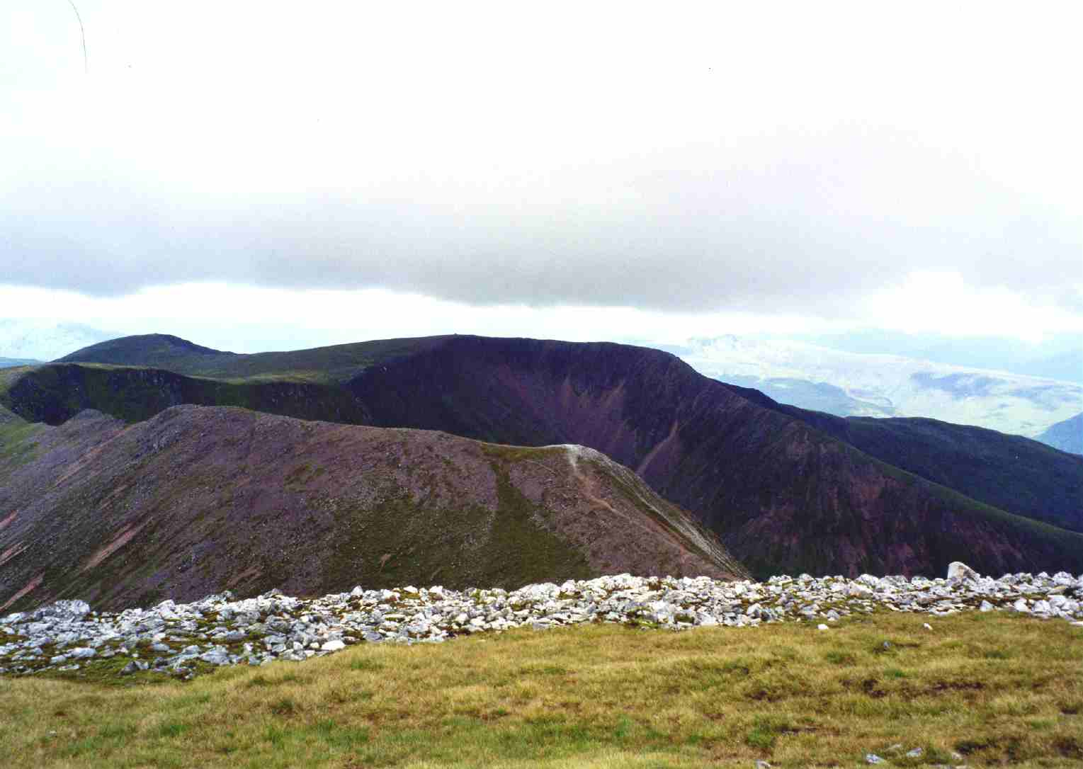 Personal photograph taken by Mick Knapton